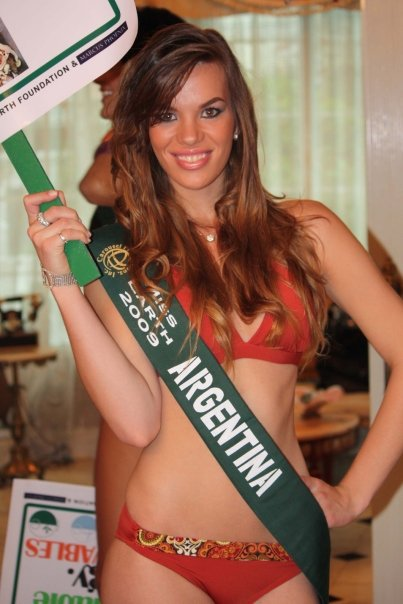 Miss Earth 2009 Press Presentation last November 4, 2009 in Valle Velarde 6, Pasig City, Philippines.